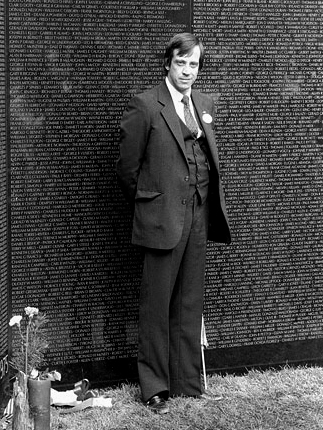 SI Neg. 82-13676-24. Date: 1982...Jan C. Scruggs, founder of the Vietnam Veterans Memorial, standing at the apex of the Wall. ..Credit: Dane A. Penland (Smithsonian Institution)